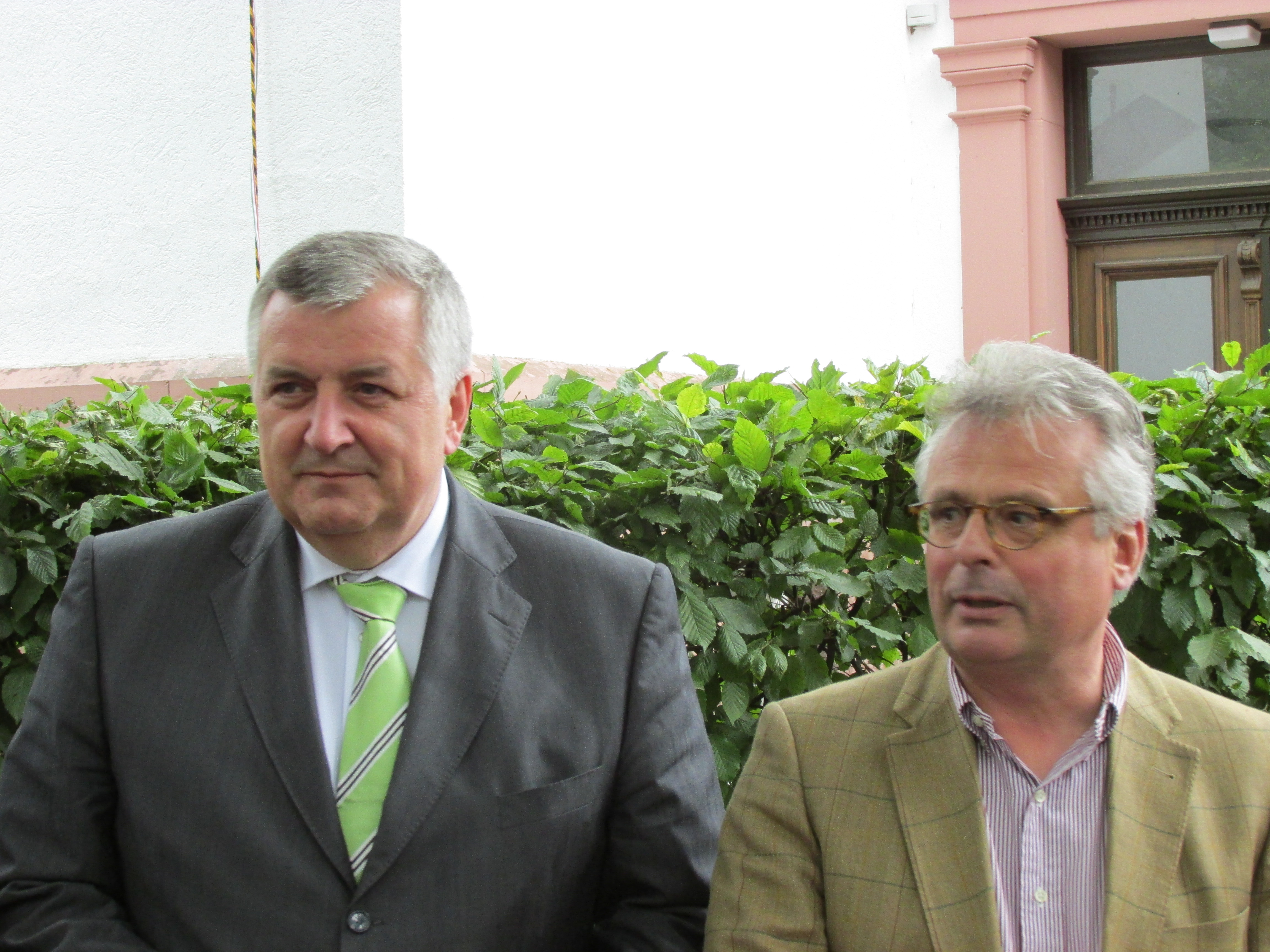 Unveiling ceremony plaque Wigner Jenő Pál: József Czukor, Ernst Böhme, Göttingen, Germany check usage